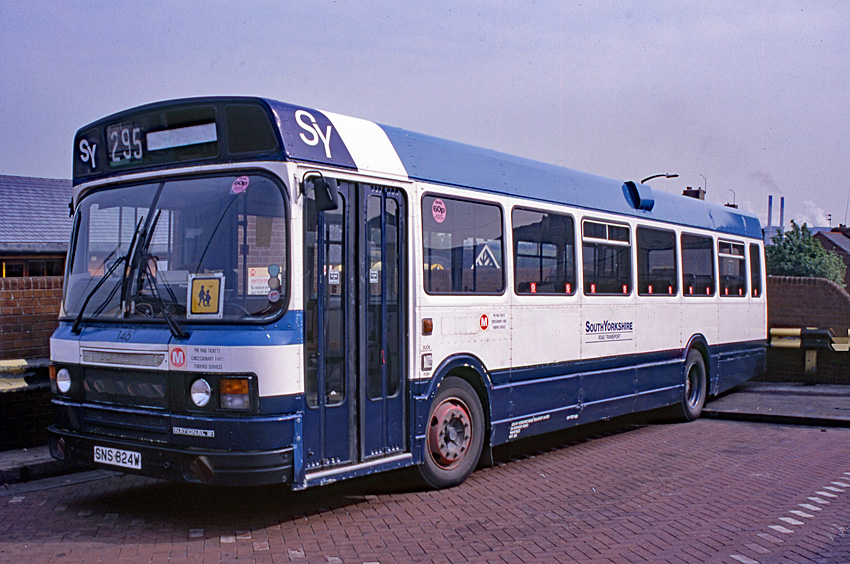 South Yorkshire Transport Leyland National 2 at Pontefract in 1996. Fleet number 146, registration number SNS 824W. Scanned from a Fujichrome 35mm slide.